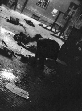 Collecting bodies after bombing, during Warsaw Uprising. Picture of the courtyard of Tamka 23 street where Tomaszewski was taken after being wounded on September 8.